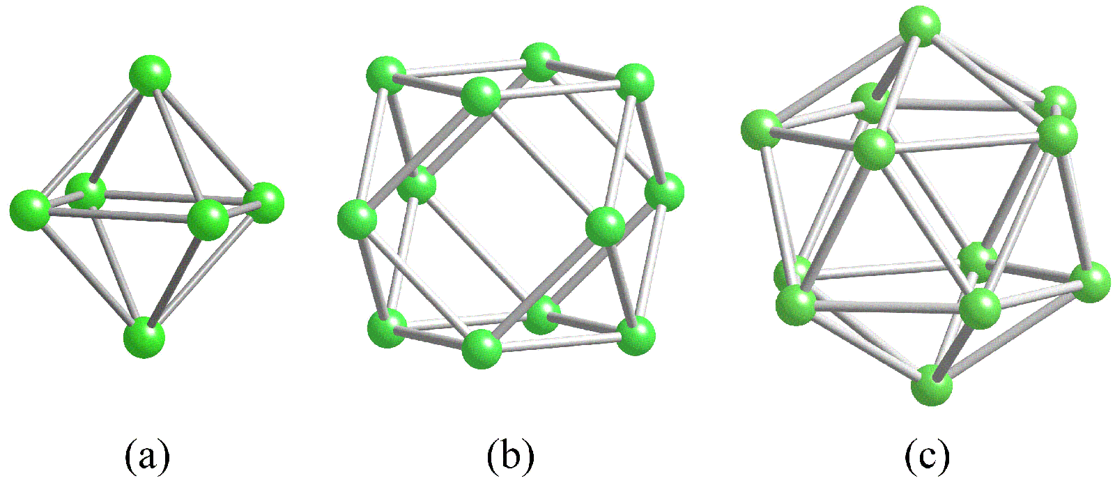 (a) B6 octahedron, (b) B12 cuboctahedron and (c) B12 icosahedron.